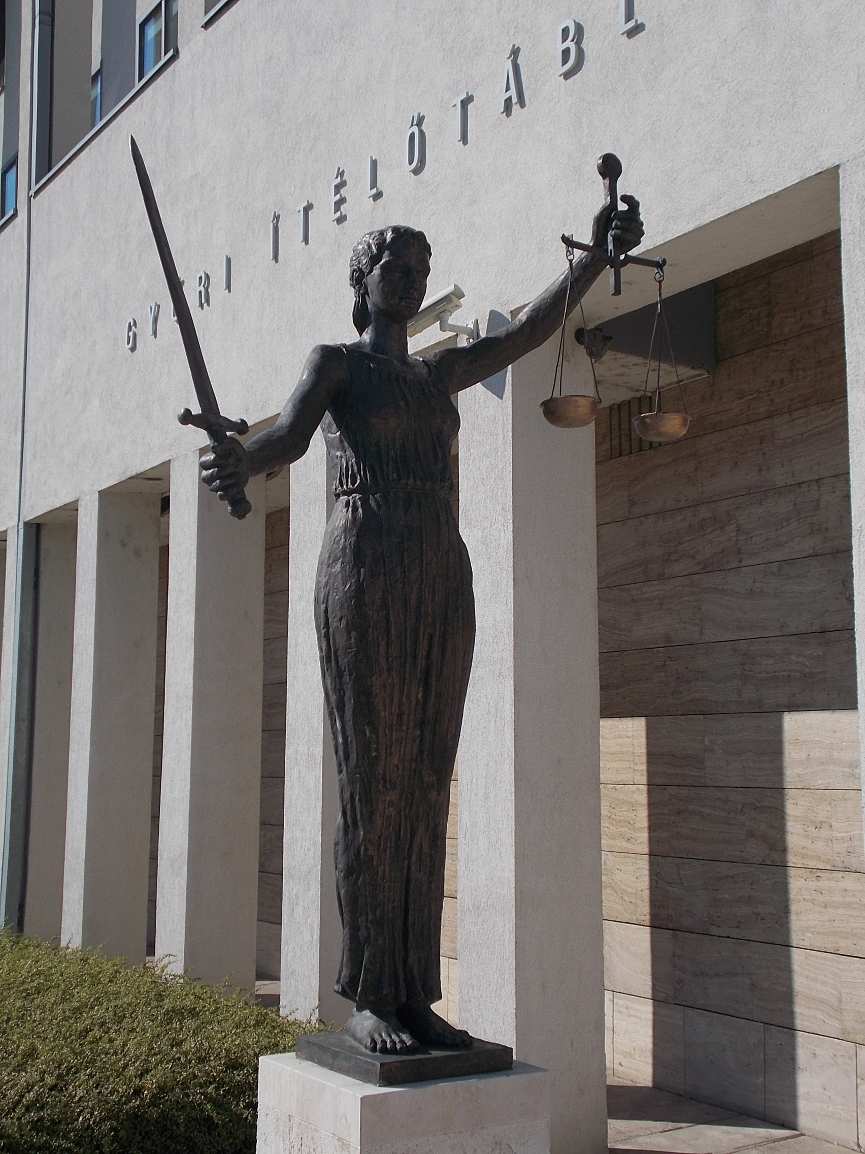 Statue of Justice by Ferenc Lebó (2006 Bronze statue, libra and sword in art) at the Higher Regional Court. - Domb Street, Győr, Győr-Moson-Sopron County, Hungary.